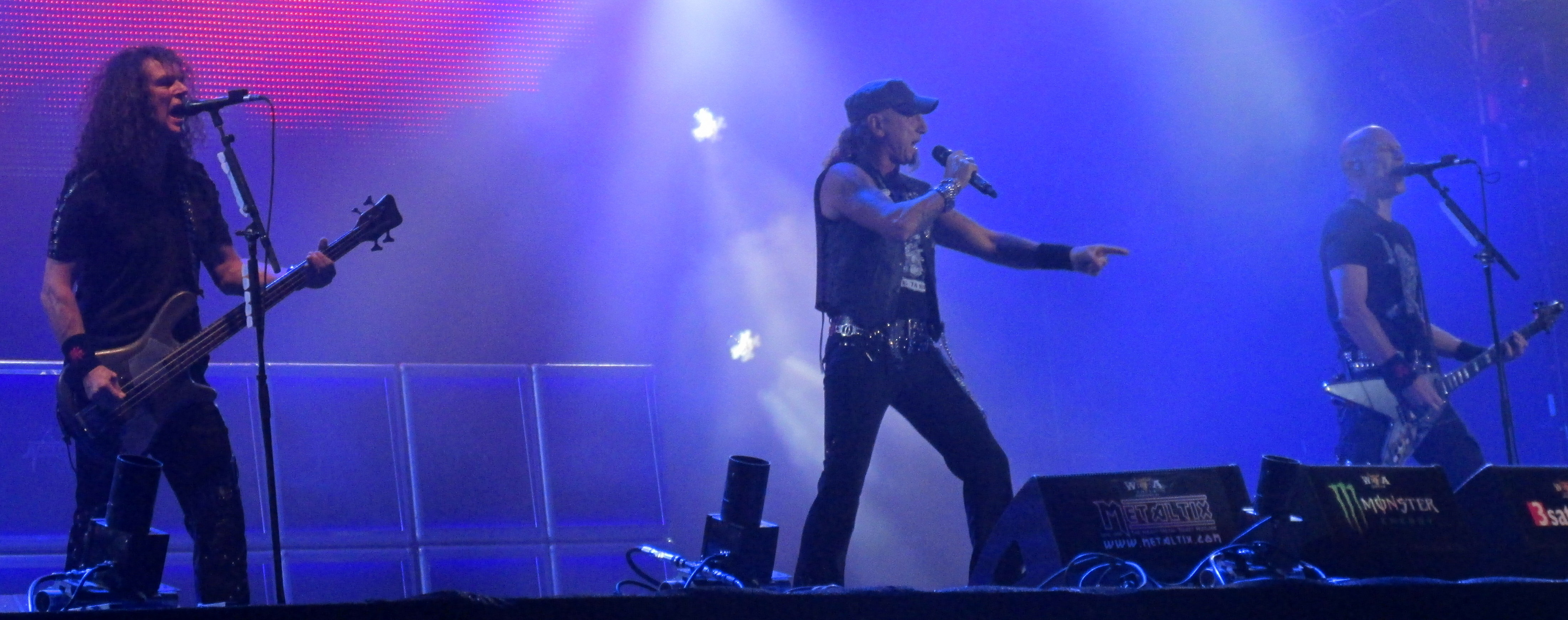 Accept at Wacken Open Air 2014